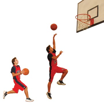 basketball